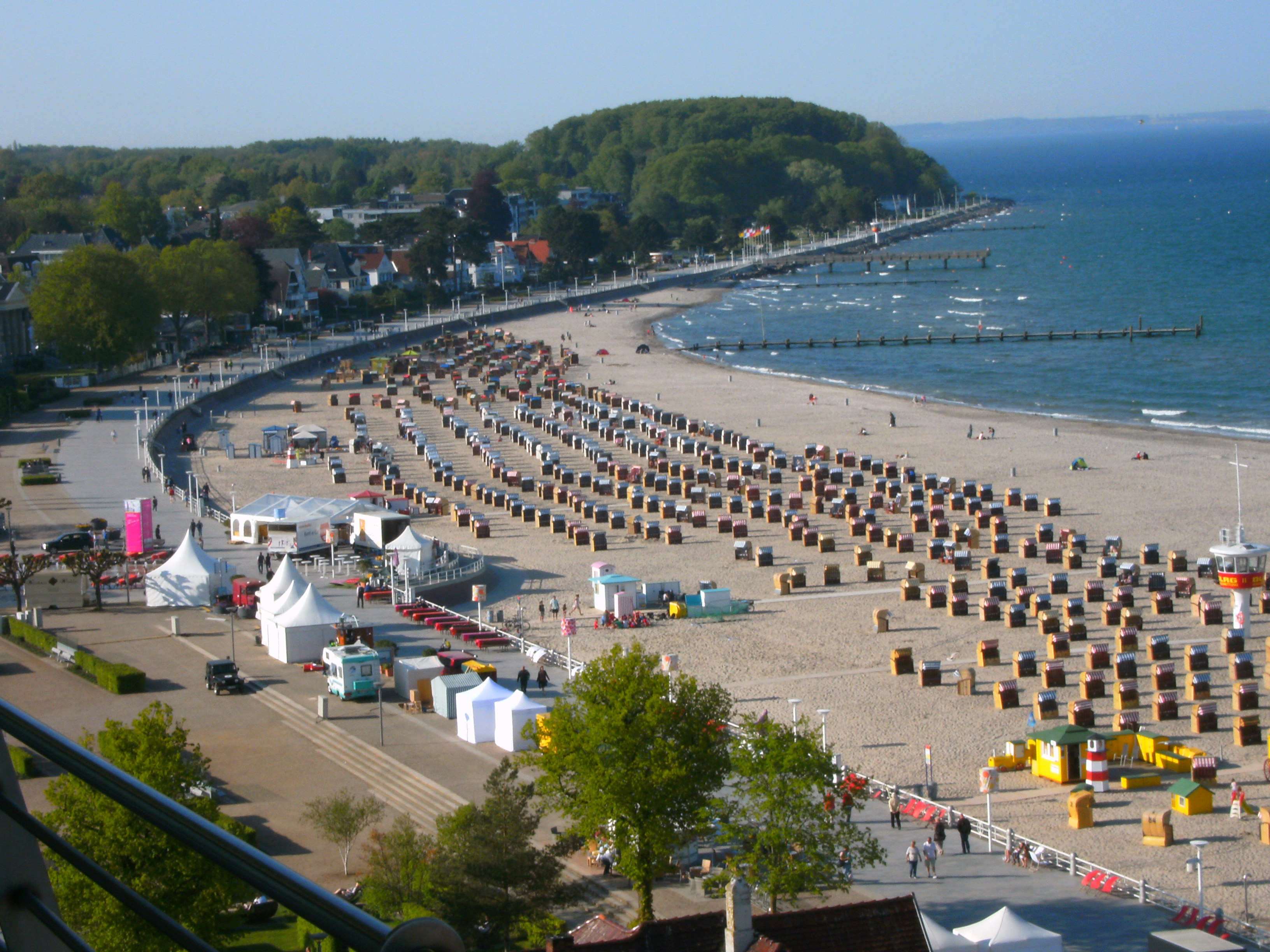 Travemünde, Germany: Strandpromenade (promenade of Travemünde), wicker beach chairs and Baltic Sea.